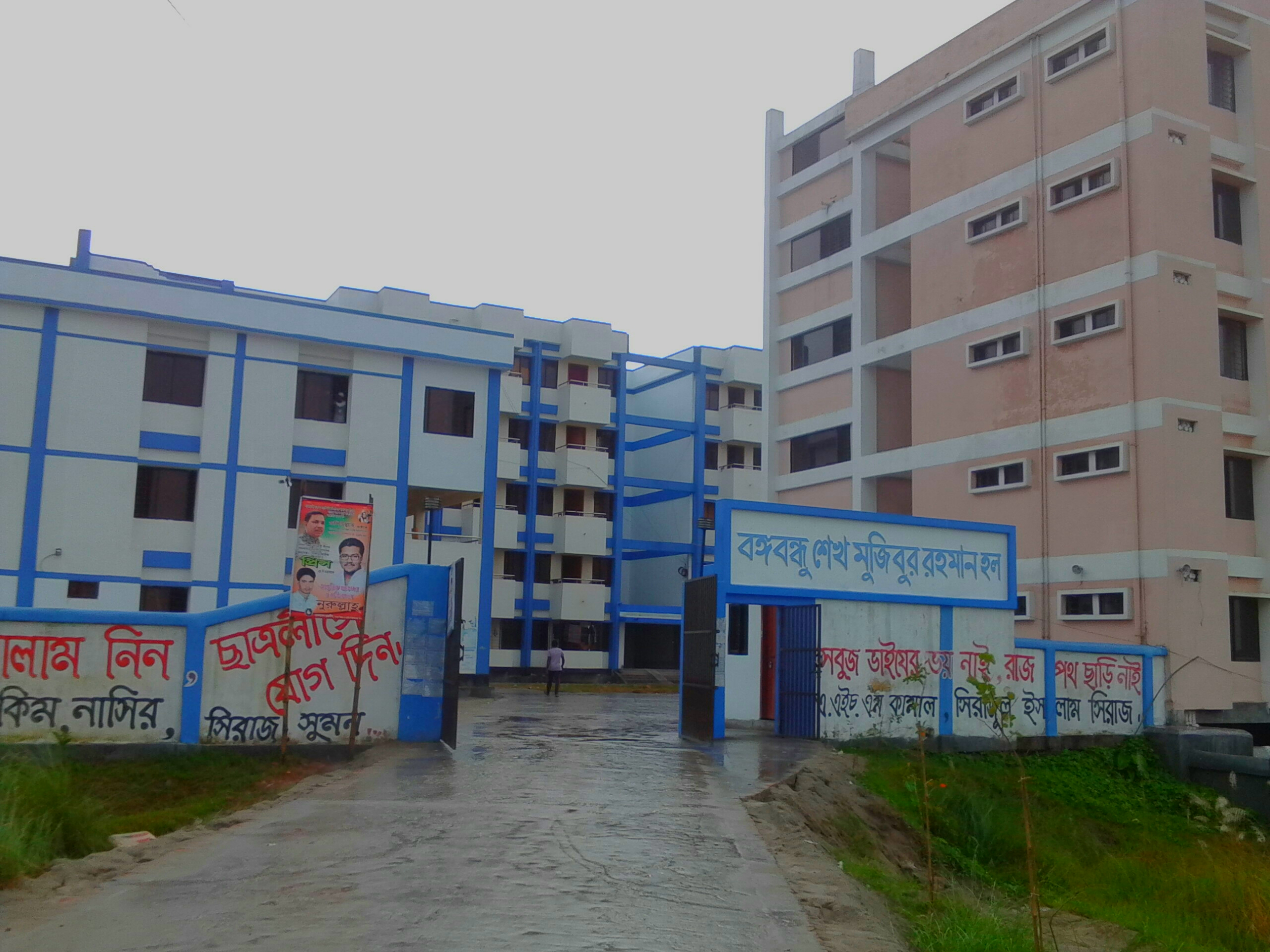 বঙ্গবন্ধু শেখ মুজিবুর রহমান হল